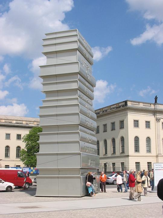 „Modern Book Printing“, fourth sculpture (from six) of the Berliner Walk of Ideas on the occasion of 2006 FIFA World Cup Germany. Unveiling: 21 April 2006 at Bebelplatz, square near the Unter den Linden in front of Humboldt University. It is to commemorate to Johannes Gutenberg, the inventor of Modern Book Printing around 1450 in Mainz